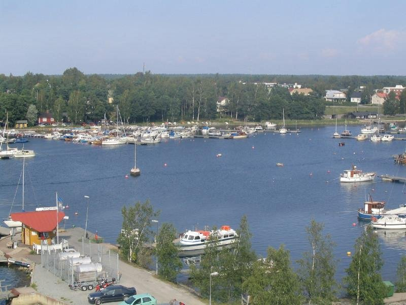 View of the Syvärauma marina in Rauma, Finland.